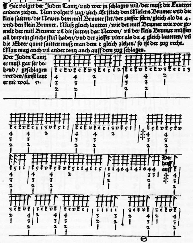 Facsimile (fragment) of lute tabulature representing 'Der Juden Tanz' by German lutenist Hans Neusidler published in 1544